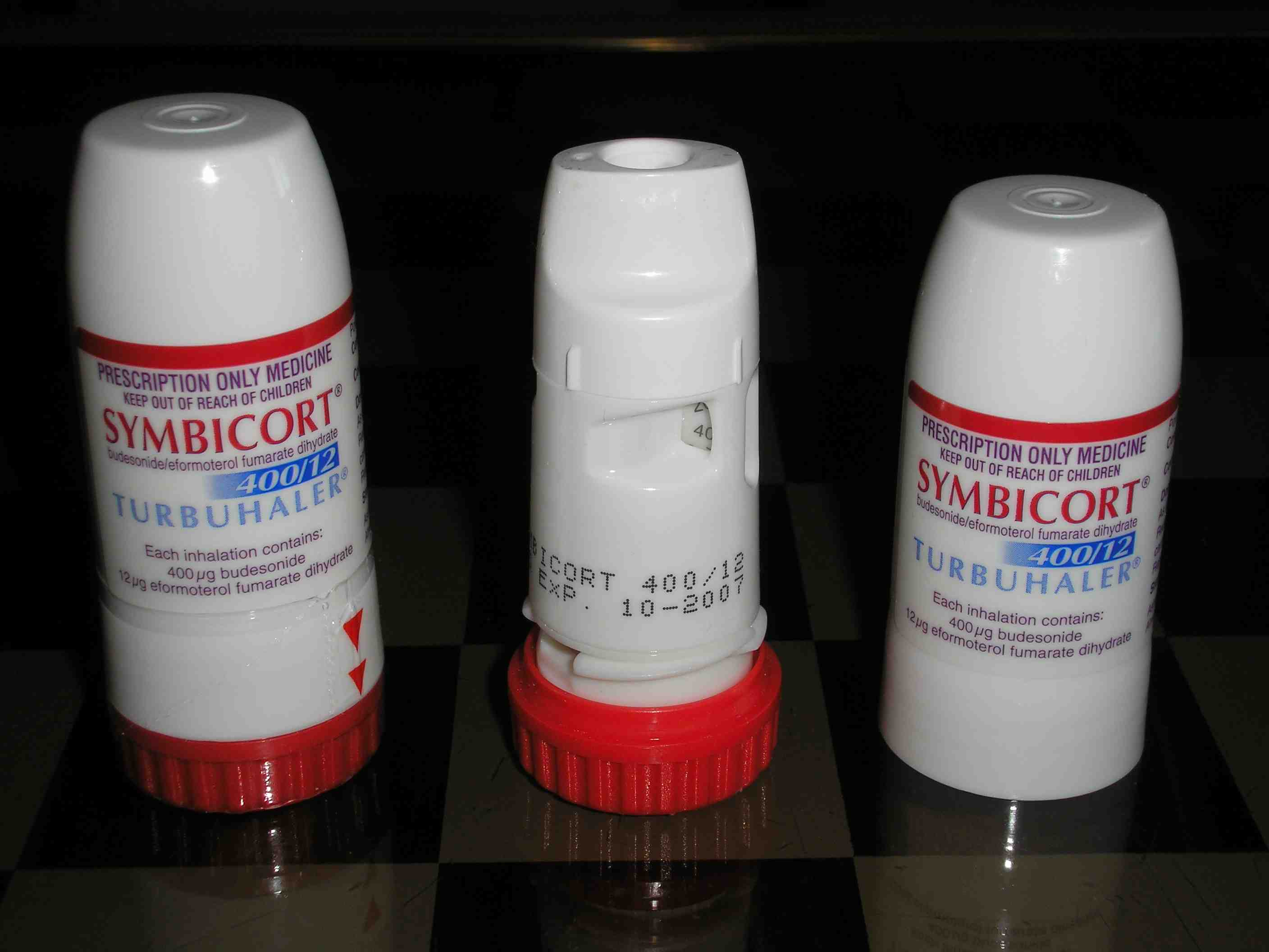 Image of Symbicort Inhaler, taken and uploaded by me to Wikipedia in 2006, now moved to Commons in 2017.